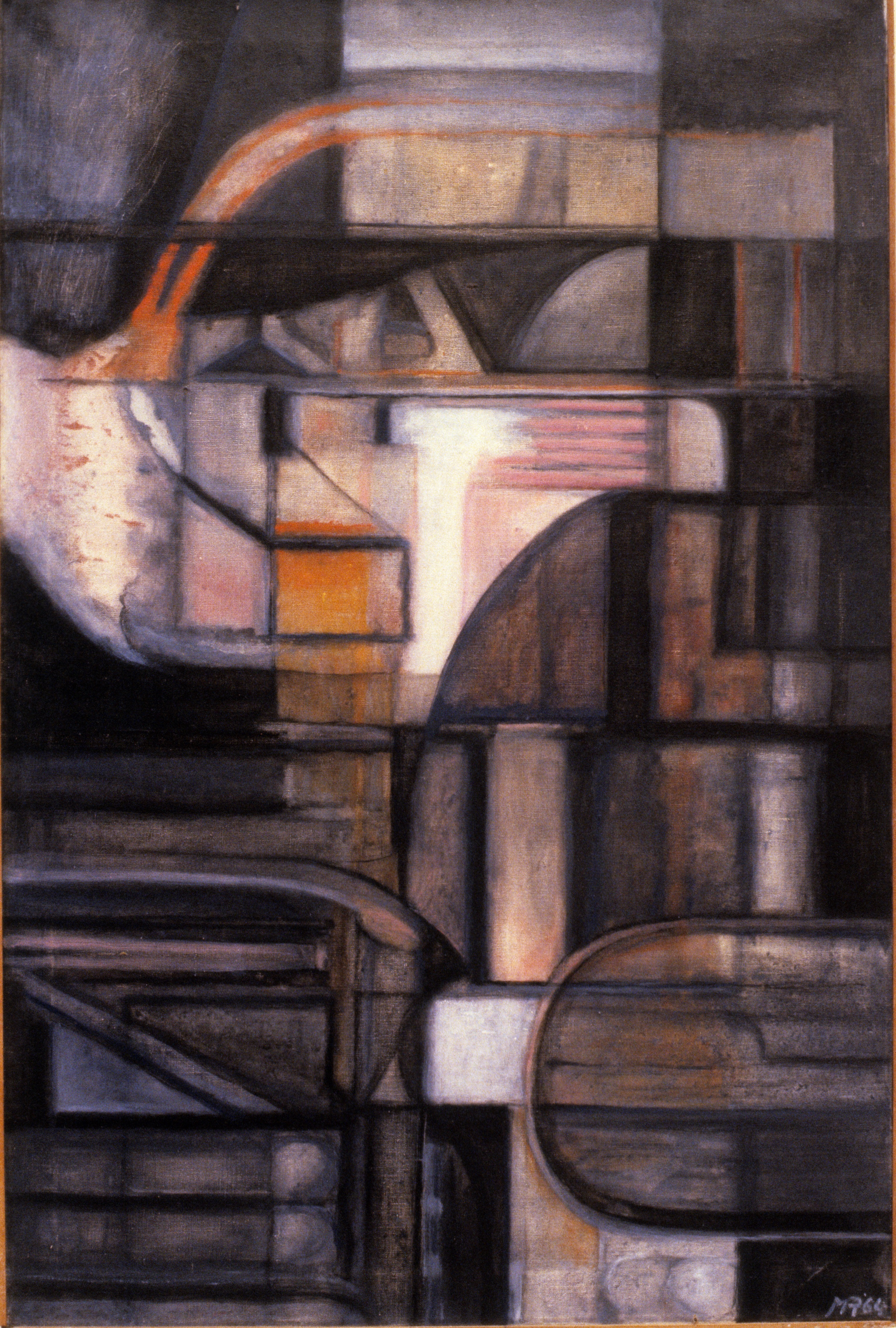 Maria Petroni, Perfect crime, 1964